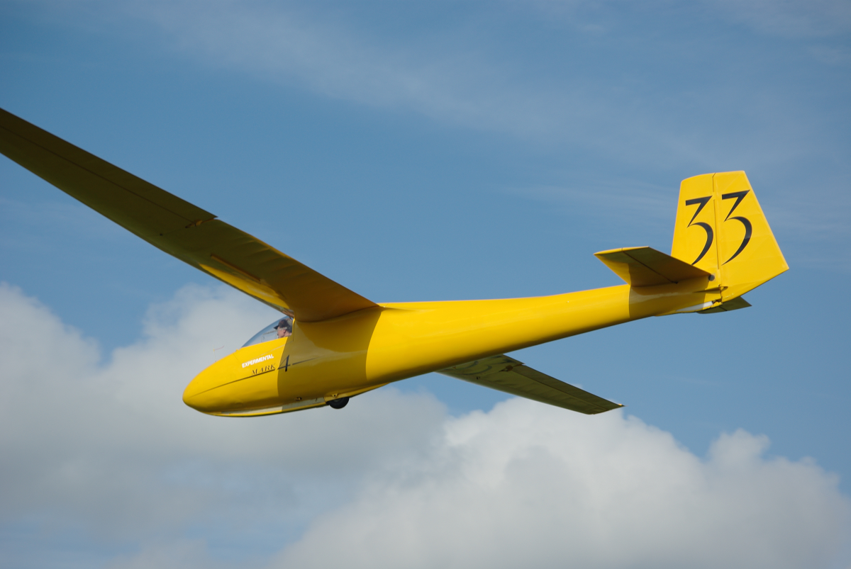 Slingsby T.41 Skylark 2C BGA778/33 at the Vintage Glider Club Rally, Camphill, Derbyshire. 26 June 2012.